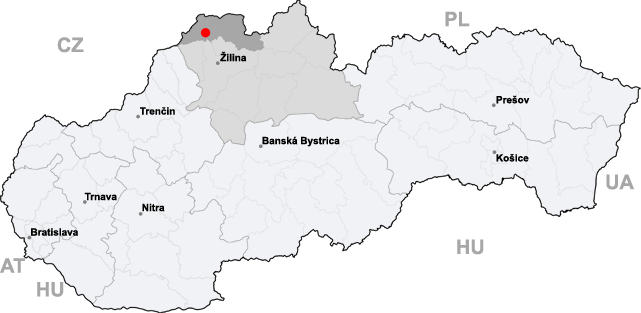 map of Slovakia, city of Turzovka highlighted